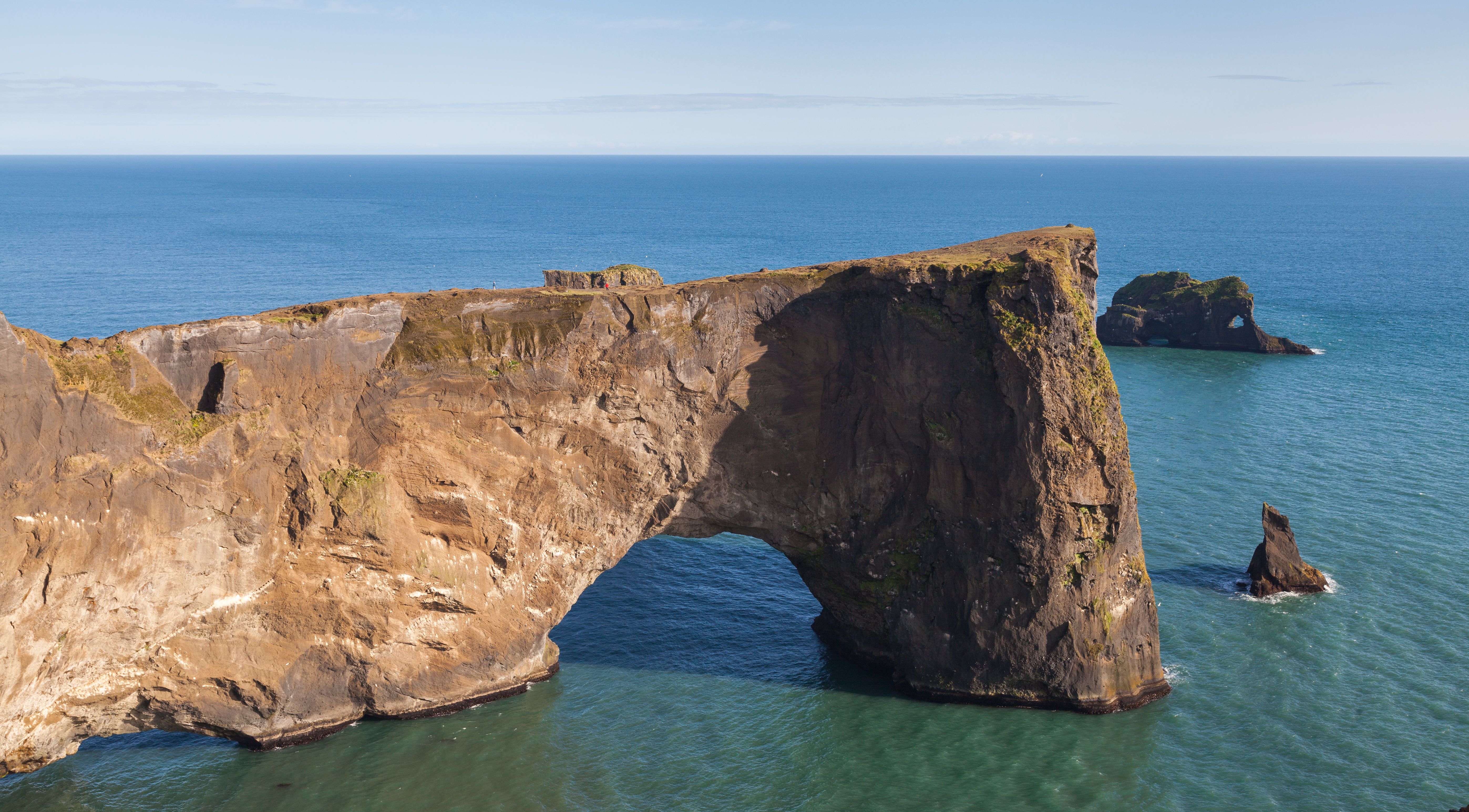 Dyrhólaey, Suðurland, Iceland